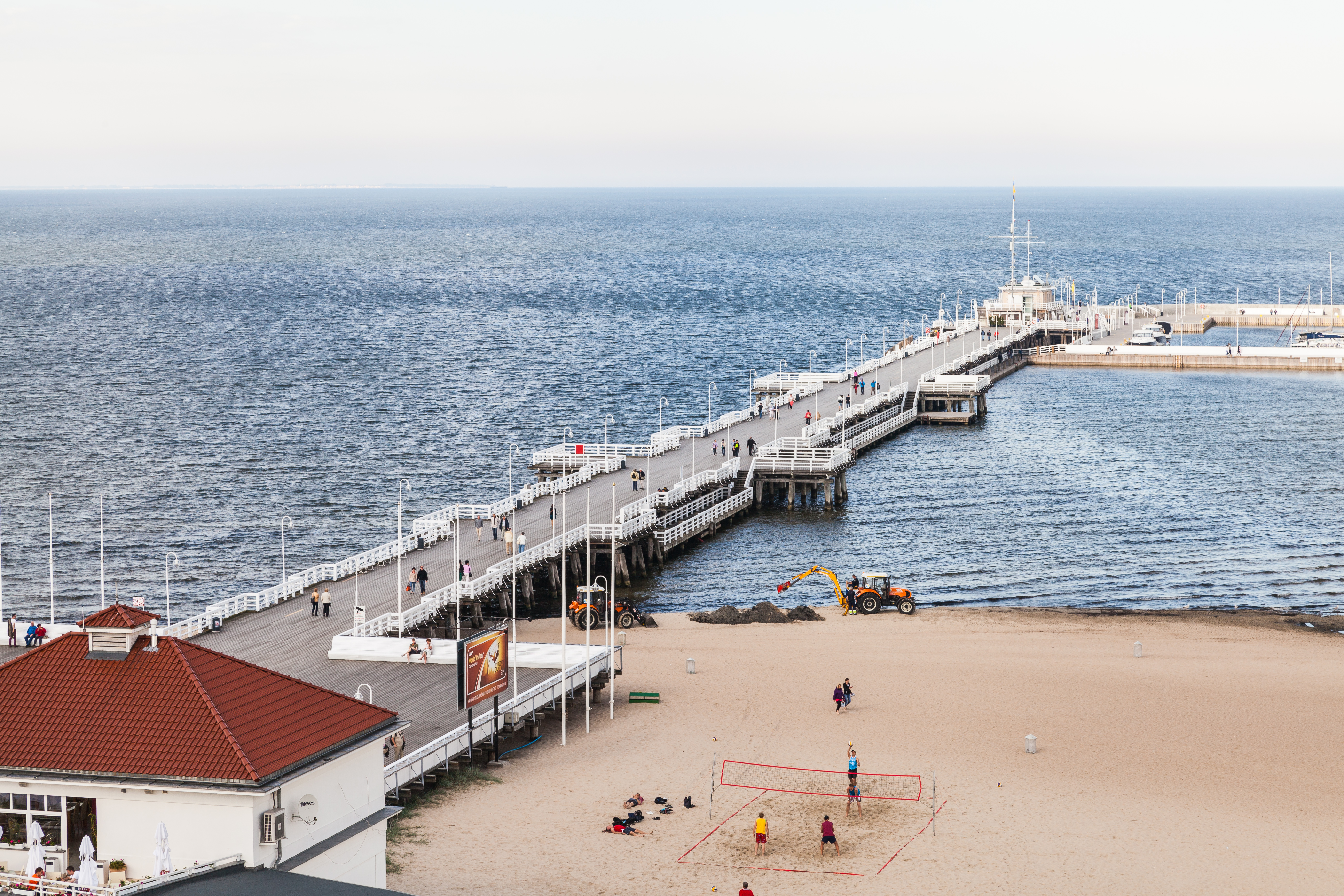 Promenade pier of Sopot, Poland